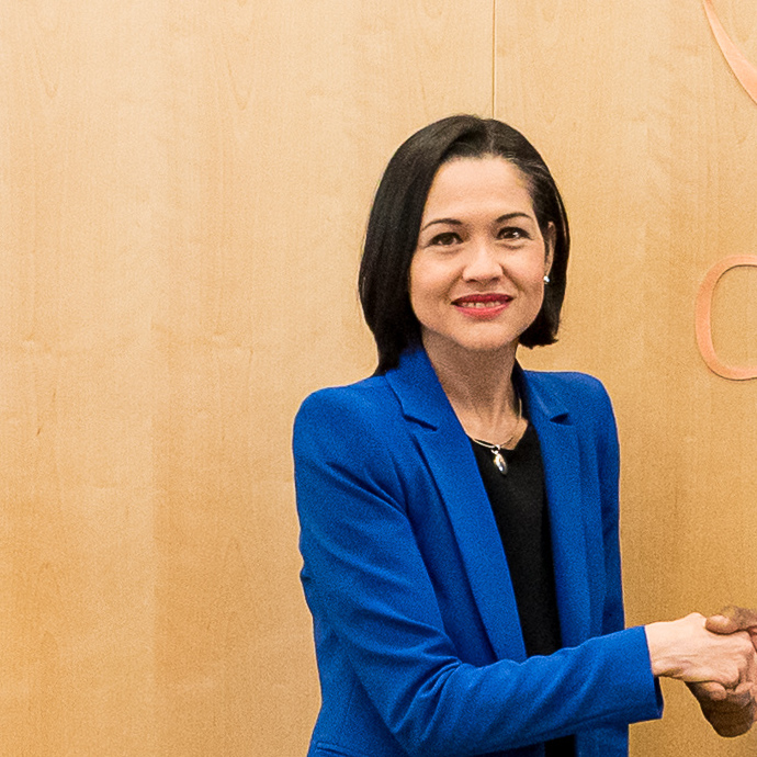 HE Julia Emma Villatoro Tario, Permanent Representative of the Republic of El Salvador, presents her credentials to the Executive Secretary of the Comprehensive Nuclear-Test-Ban Treaty Organization, on Thursday, 6 February 2020.